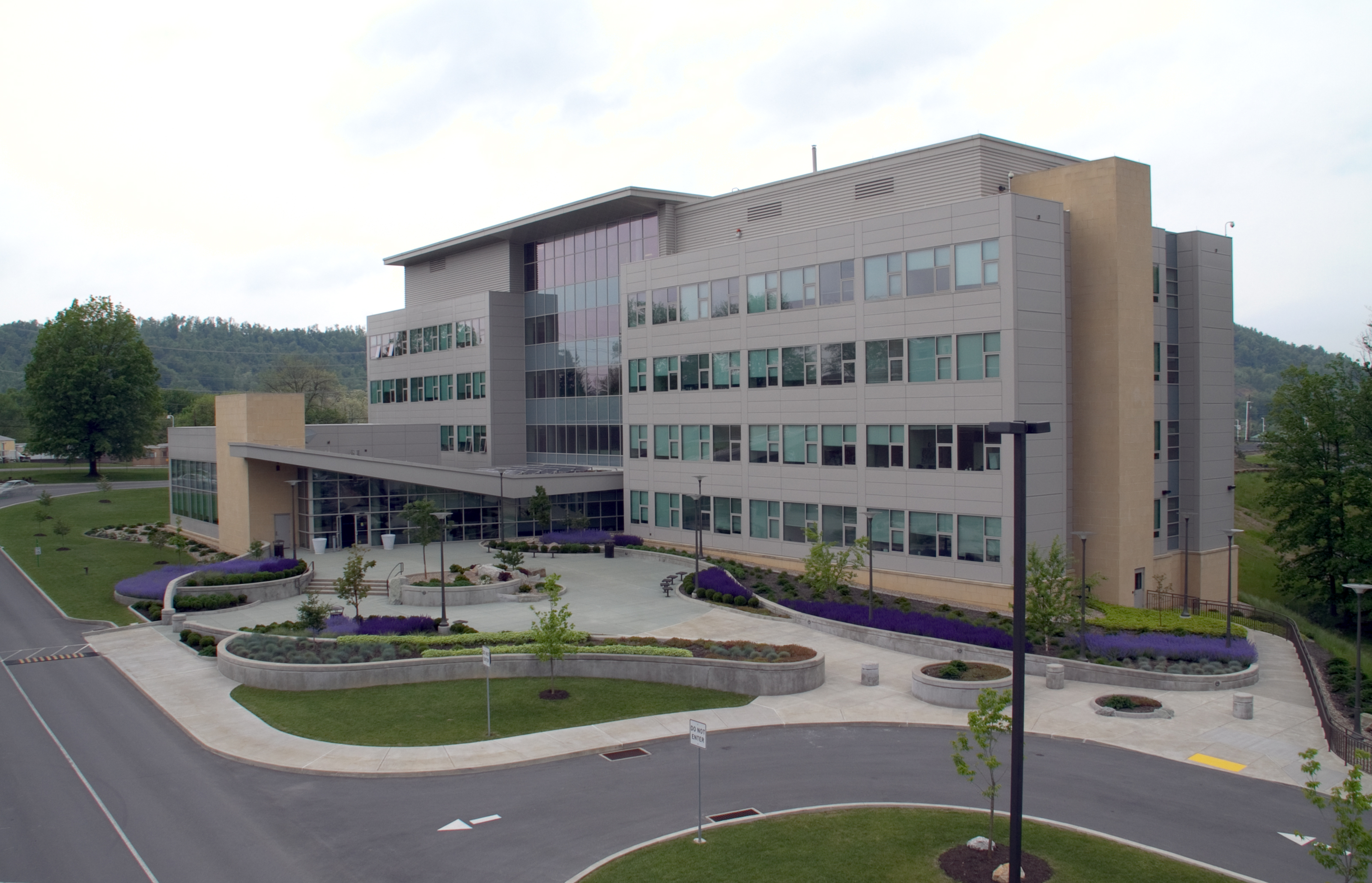 B39 in Morgantown in Spring, 2010. This building is also known as the "TSF" building.